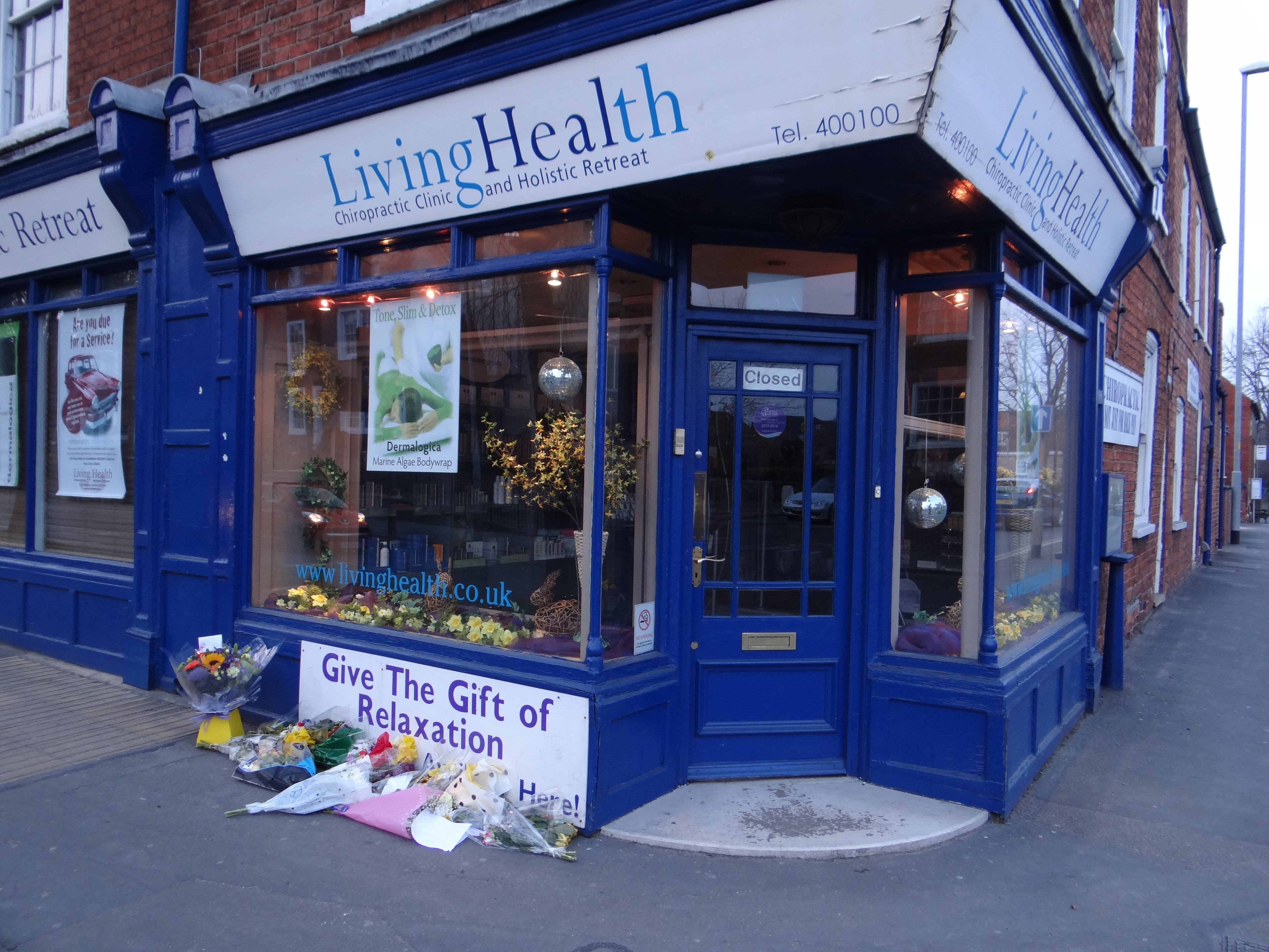 Tributes to Margaret Thatcher. Floral tributes outside the birthplace of Margaret Thatcher, the first female Prime Minister of the United Kingdom, who died the previous day.